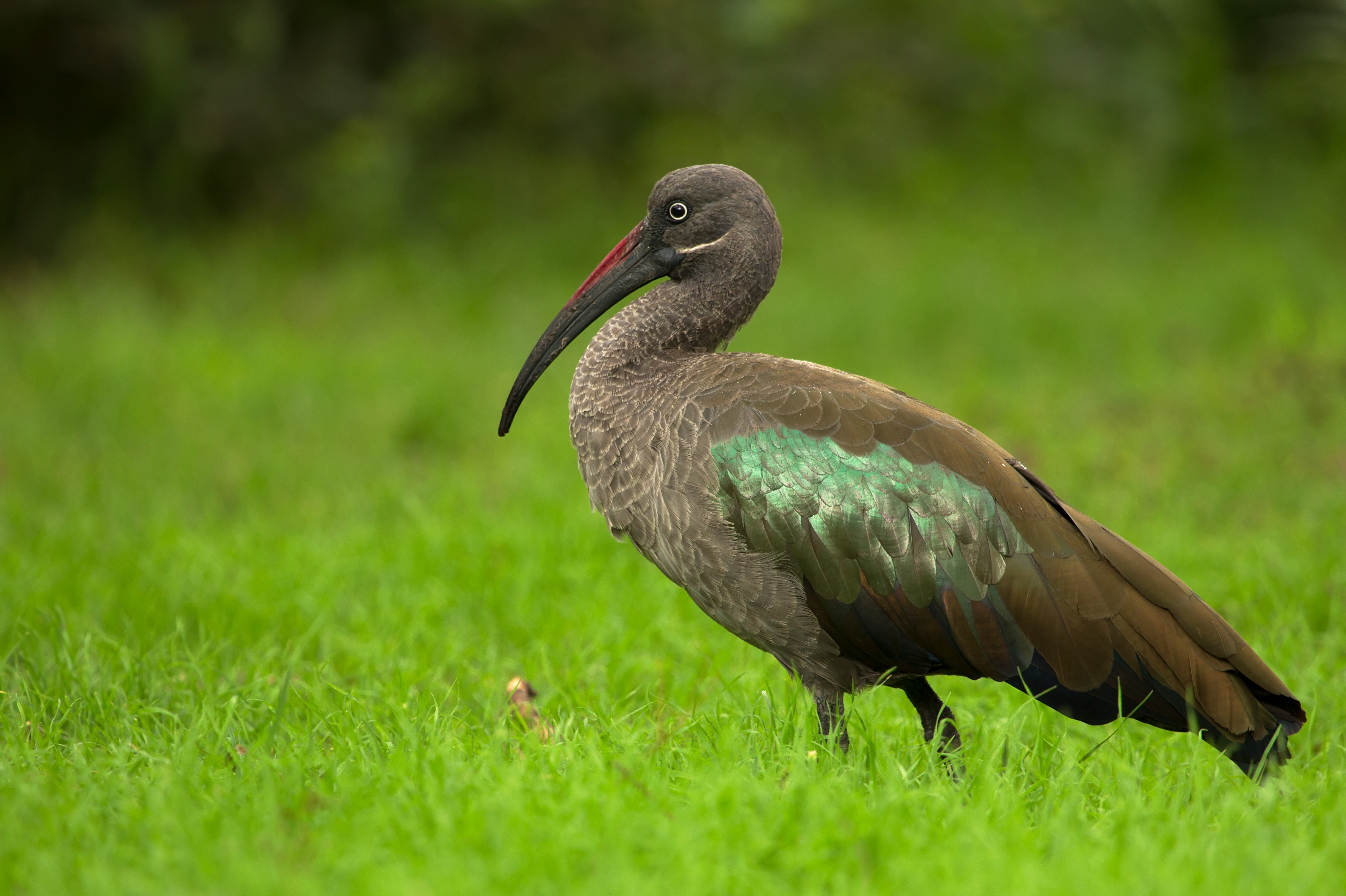 Individual at Lake Naivasha, Kenya